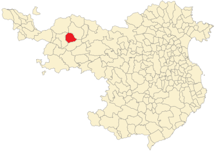 Pardinas